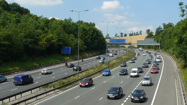 M25 Motorway, Near Merstham